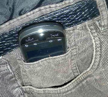 Watch pocket containing a M190 Intercept.